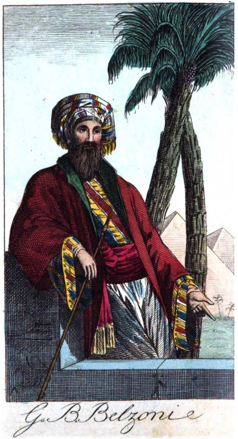 Color drawing of Giovanni Battista Belzoni, dressed in Arab fashion, c. 1816-1820.